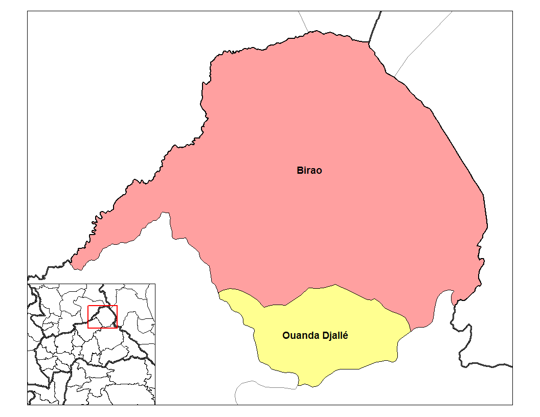 Map of the sub-prefectures of Vakaga prefecture in the Central African Republic. Created by Rarelibra 21:02, 31 August 2006 (UTC) for public domain use, using MapInfo Professional v8.5 and various mapping resources.